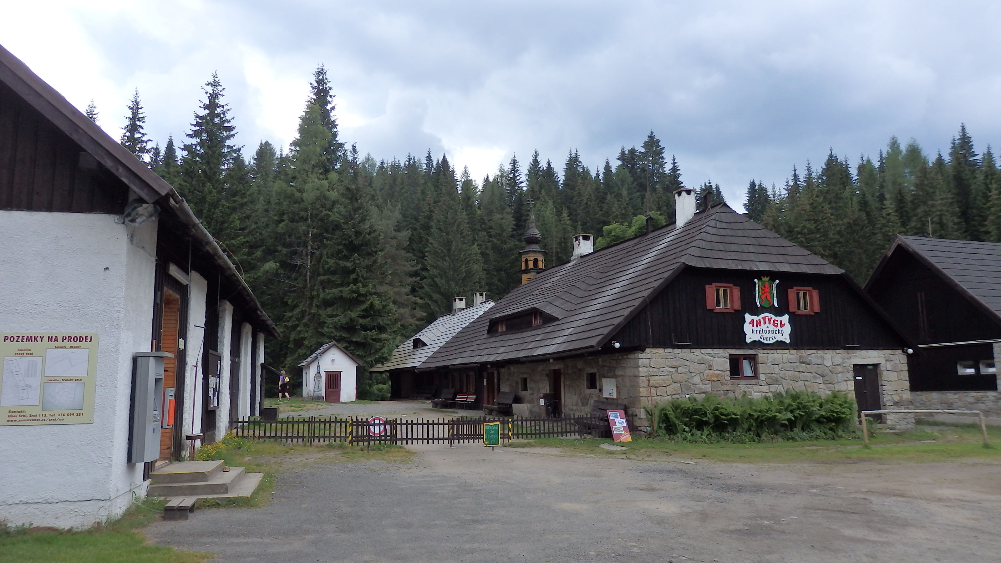 kralovácký dvorec v Antýglu, část obce Srní, okres Klatovy